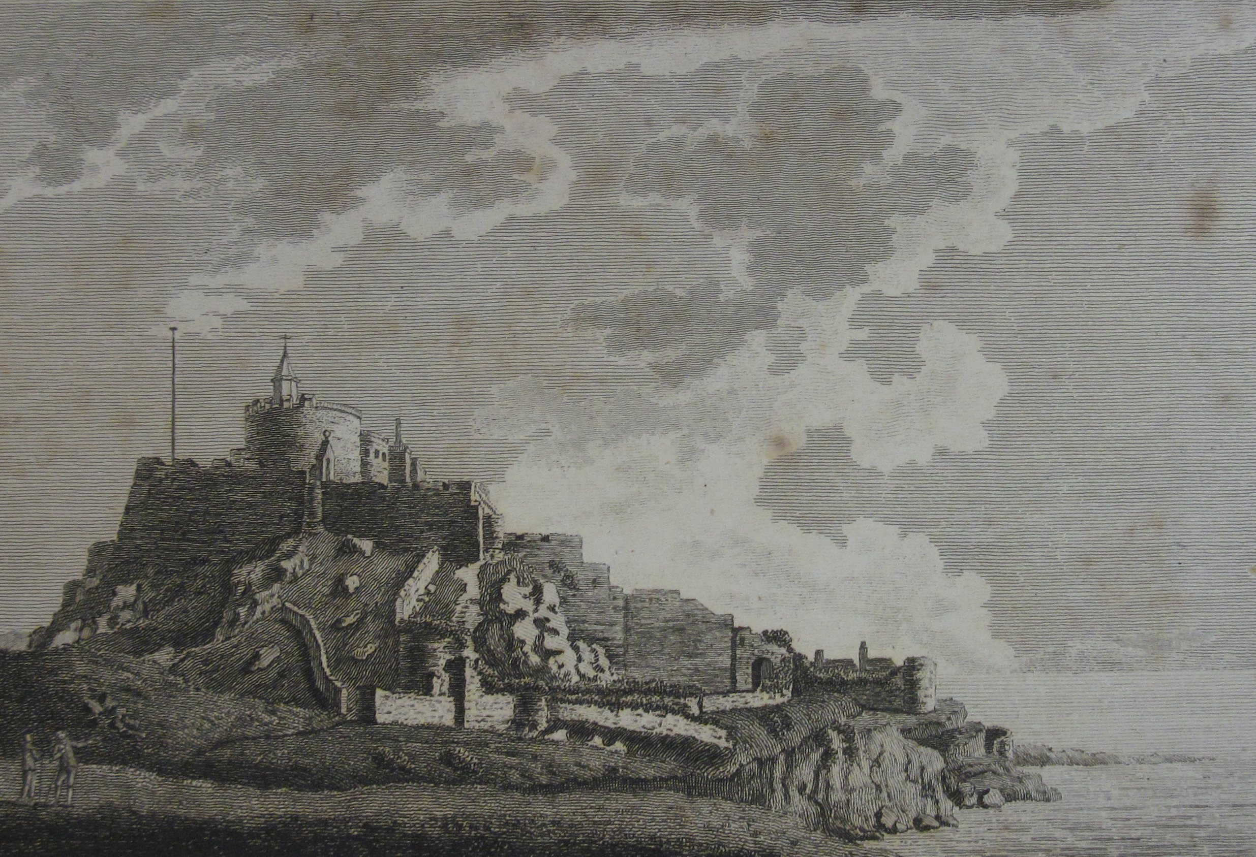 Caesarea: or an Account of Jersey, the Greatest of the Islands round the Coast of England or the Ancient Duchy of Normandy. (1797), began by Philip Falle, continued by Philip Morant, and improved and considerably enarged, with a map of the Island, views of churches, castles, druidical remains, etc. - "Mont Orgueil Castle, Jersey"